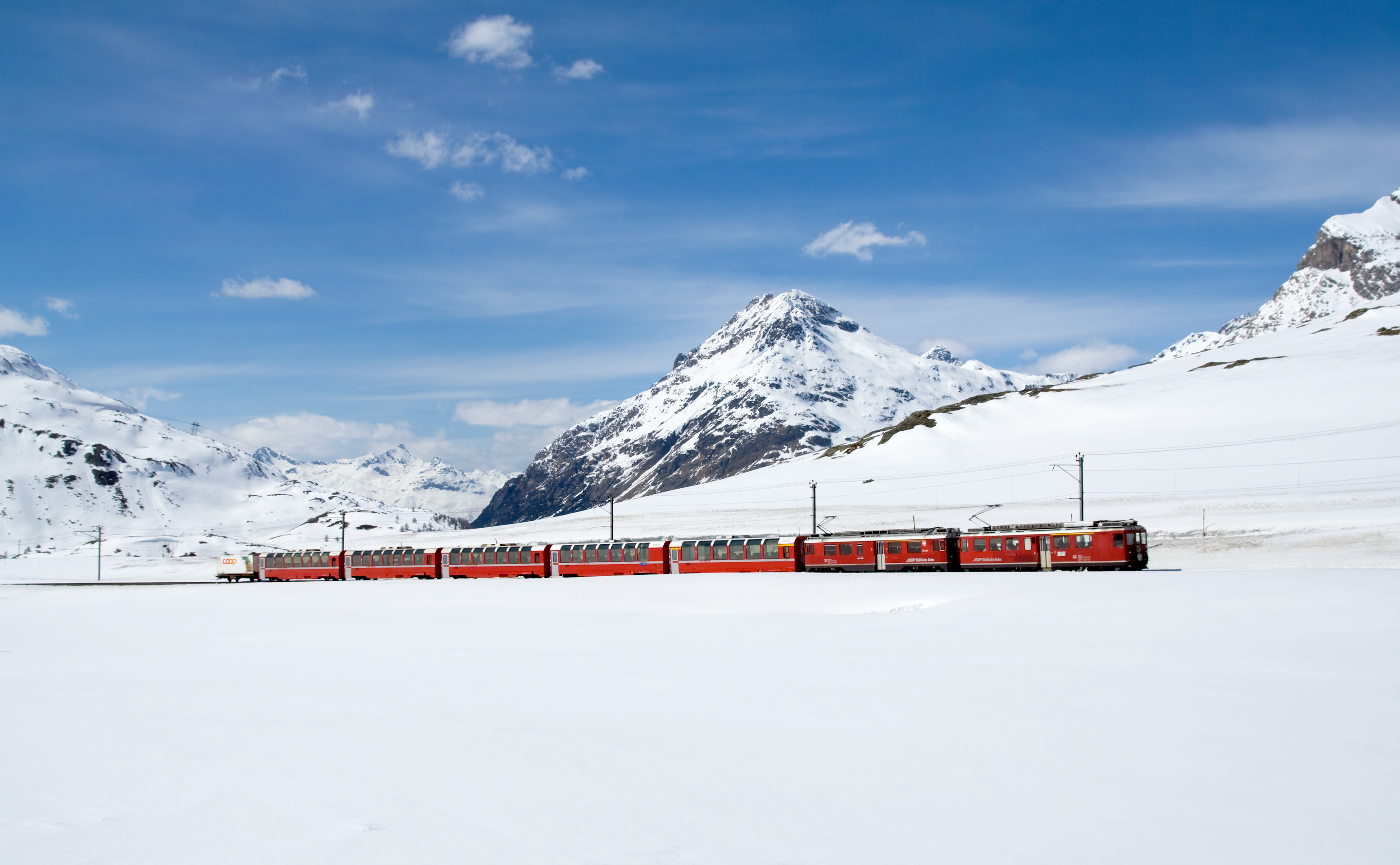 RhB ABe 4/4 II 45 und ABe 4/4 III 52 "Brusio" pulling the Bernina Express between Lagalb and Ospizio Bernina, passing the completely snow-covered Lej Pitschen